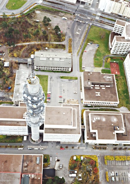 Western Pasila, in Helsinki, Finland, photographed from a hot air balloon.